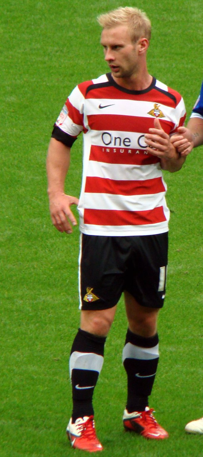 10/09/11 Cardiff V Doncaster, Championship, Cardiff City Stadium, Cardiff, Wales